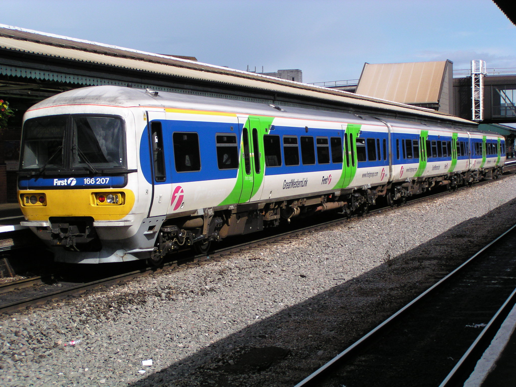 This image was copied from . The original description was: BR Class 166, no. 166217, at Reading, Berkshire on 20 August 2004. This unit is painted in Thames Trains livery, but with First Great Western Link branding.